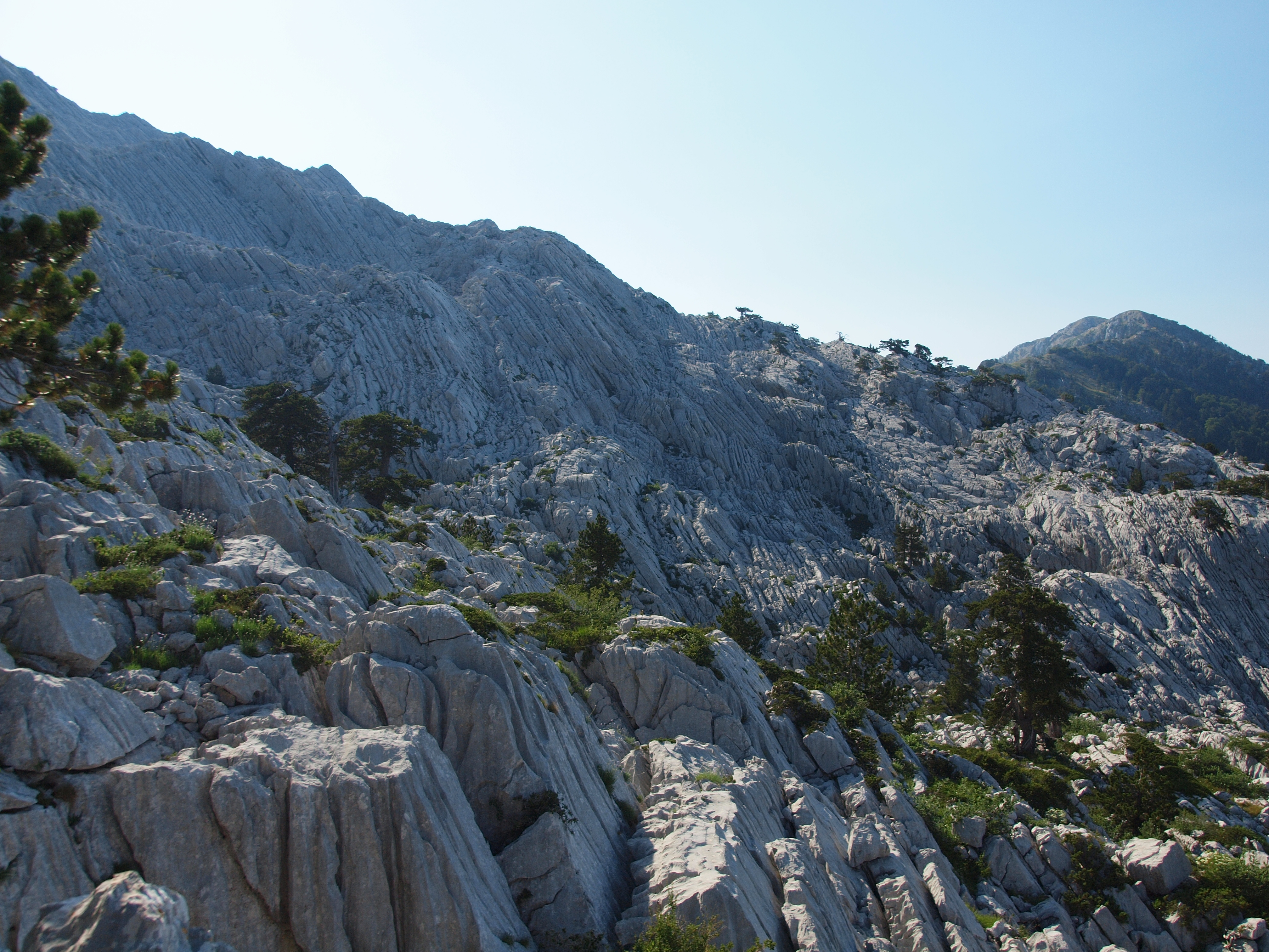 Reovacka greda col with typical Aphoricapion habitat in the subadriatic Dinaric alps Bijela gora Montenegro